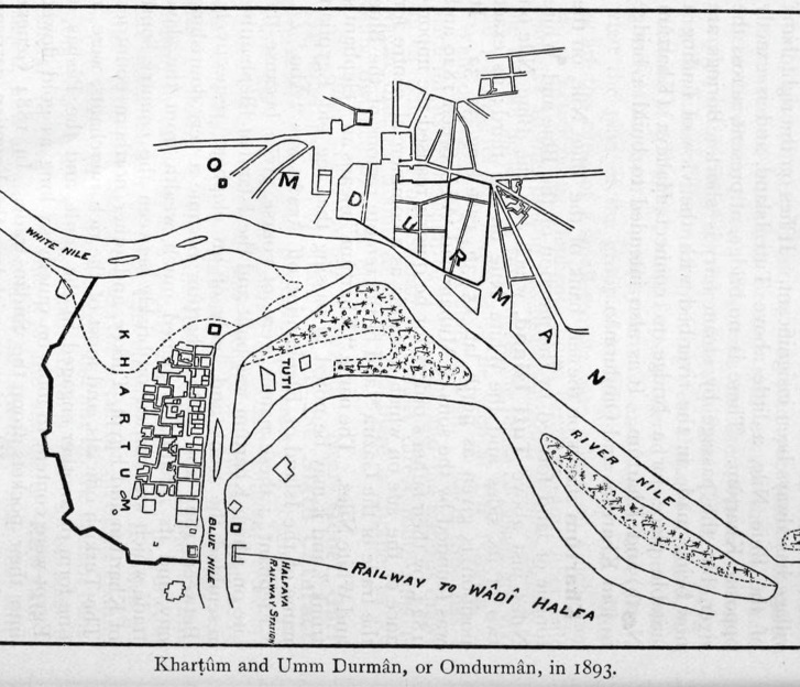 map of Khartoum and Omdurman, Sudan, in 1893